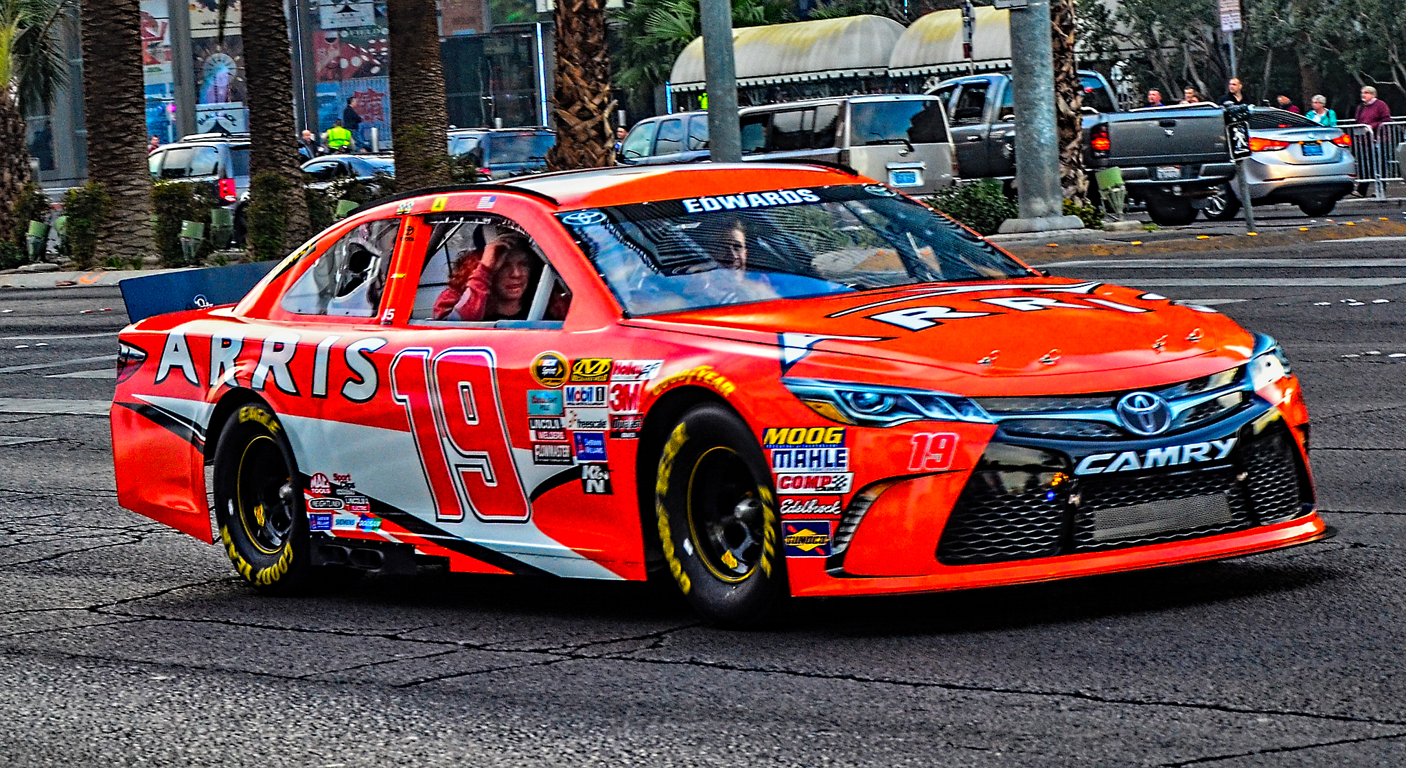 Carlton "Carl" Michael Edwards II is an American professional stock car racing driver. He currently drives the No. 19 Toyota Camry in the NASCAR Sprint Cup Series. Nascar Victory Lap 2015 The Strip, Las Vegas TDelCoro December 3, 2015